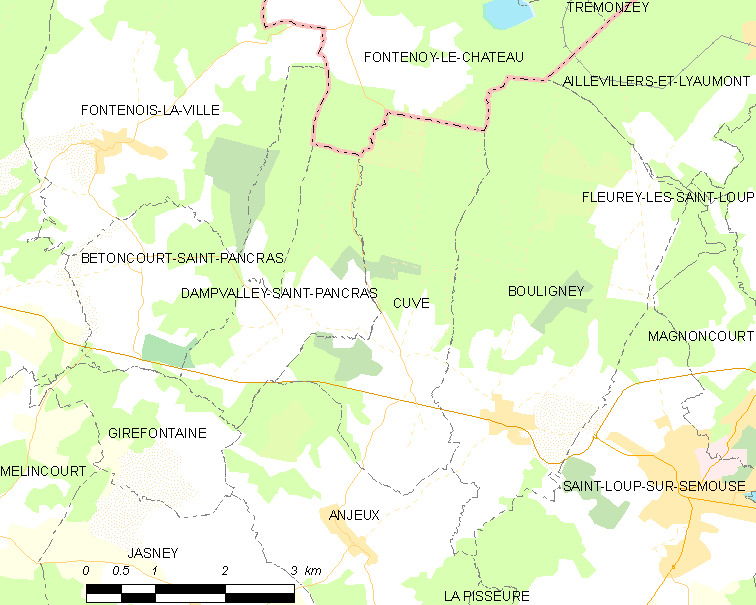 Map of French municipality